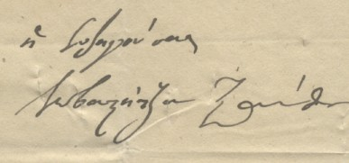 Sevasti Xanthou's signature.